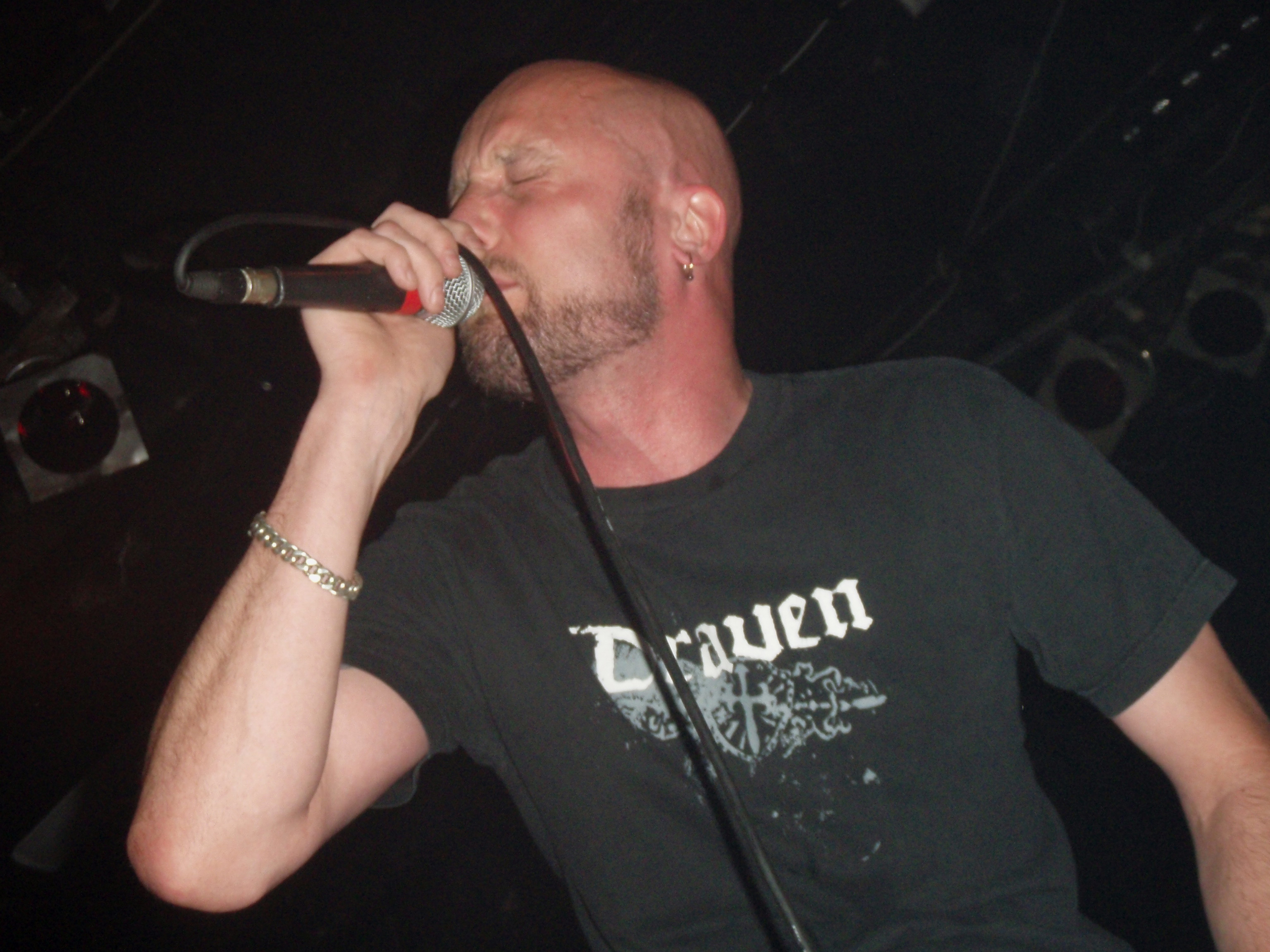 Jens Kidman from Meshuggah performing in Prague, June 25. 2008.